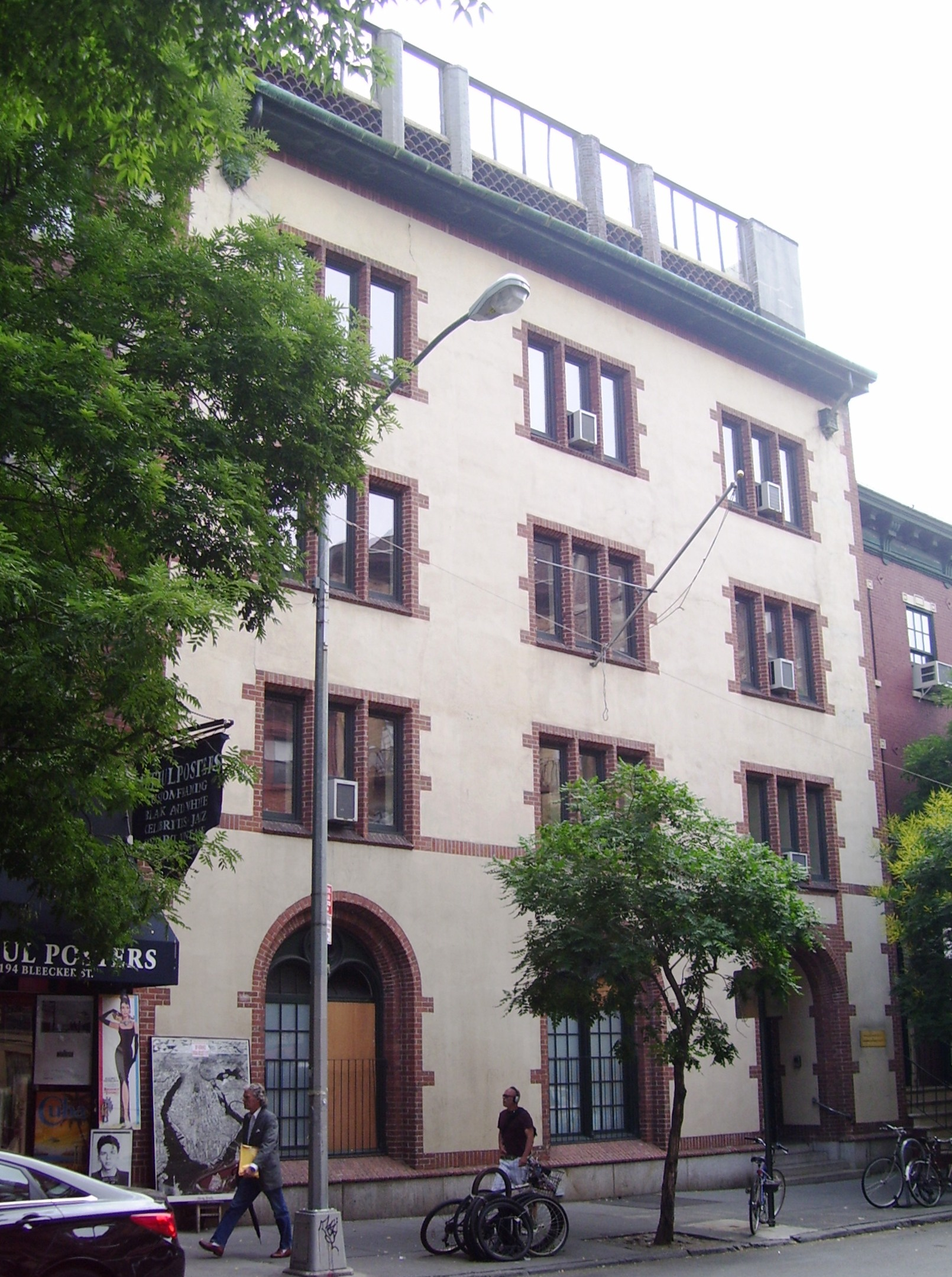 The building at 196 Bleecker Street between MacDougal Street and Sixth Avenue was given in 1932 to the Little Red School House by its owner, the First Presbyterian Church, to be the first home of the school as a private institution, rather than a project of the public school system. The Italianate building dates from 1919. (Sources: O'Han, Nicholas "The Little School That Could" on the National Association of Independent Schools website, and NYC GIS map)